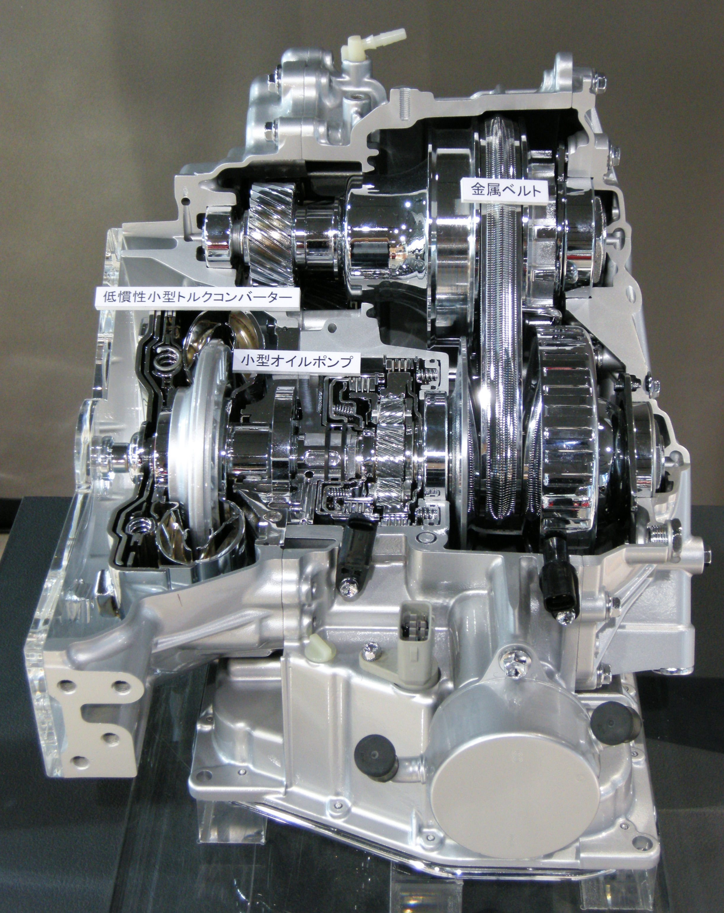 A cutaway photograph of Toyota Super CVT-i (Continuously variable transmission)